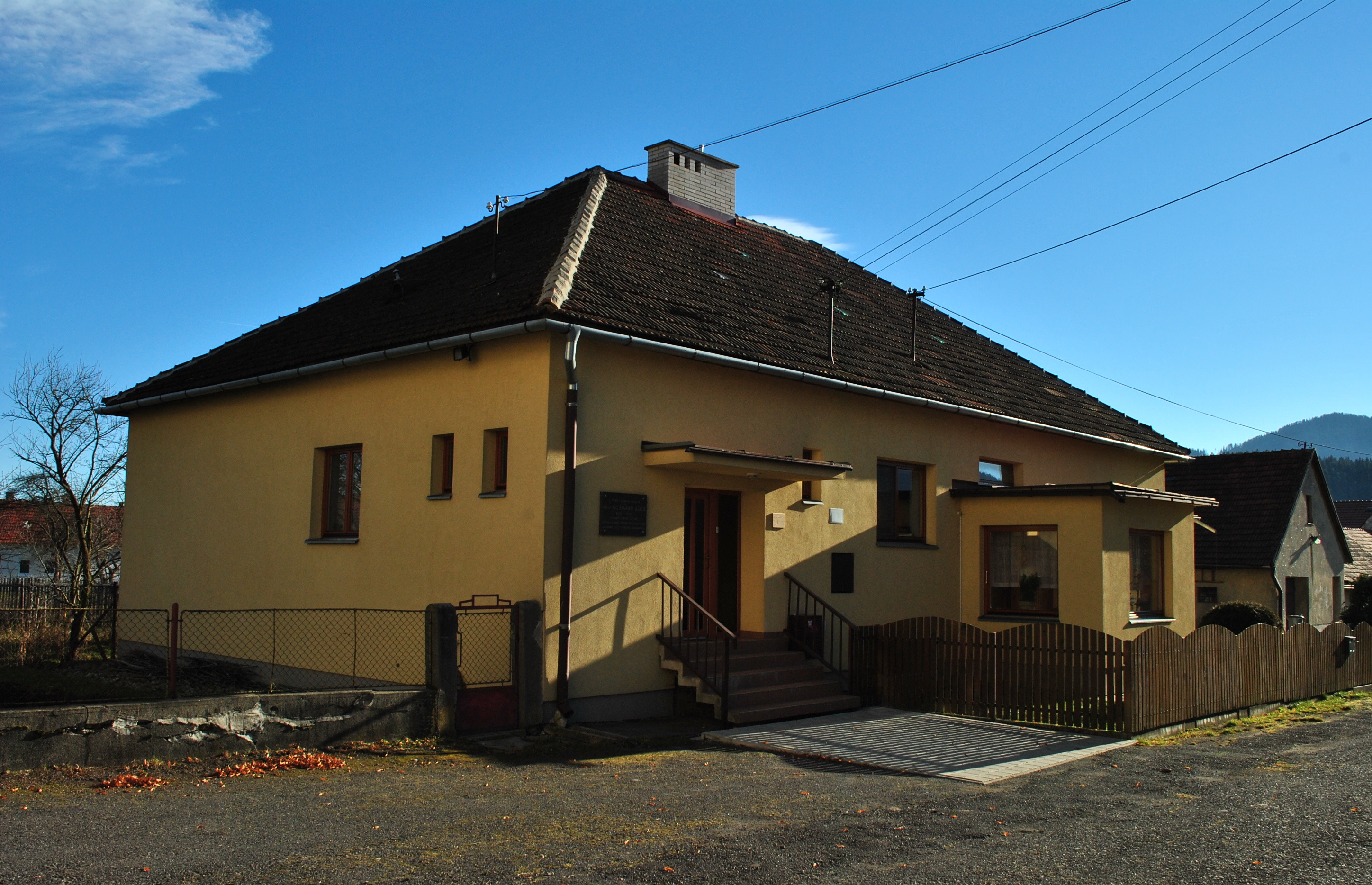 Liptovský Peter - building of the Evangelical parsonage